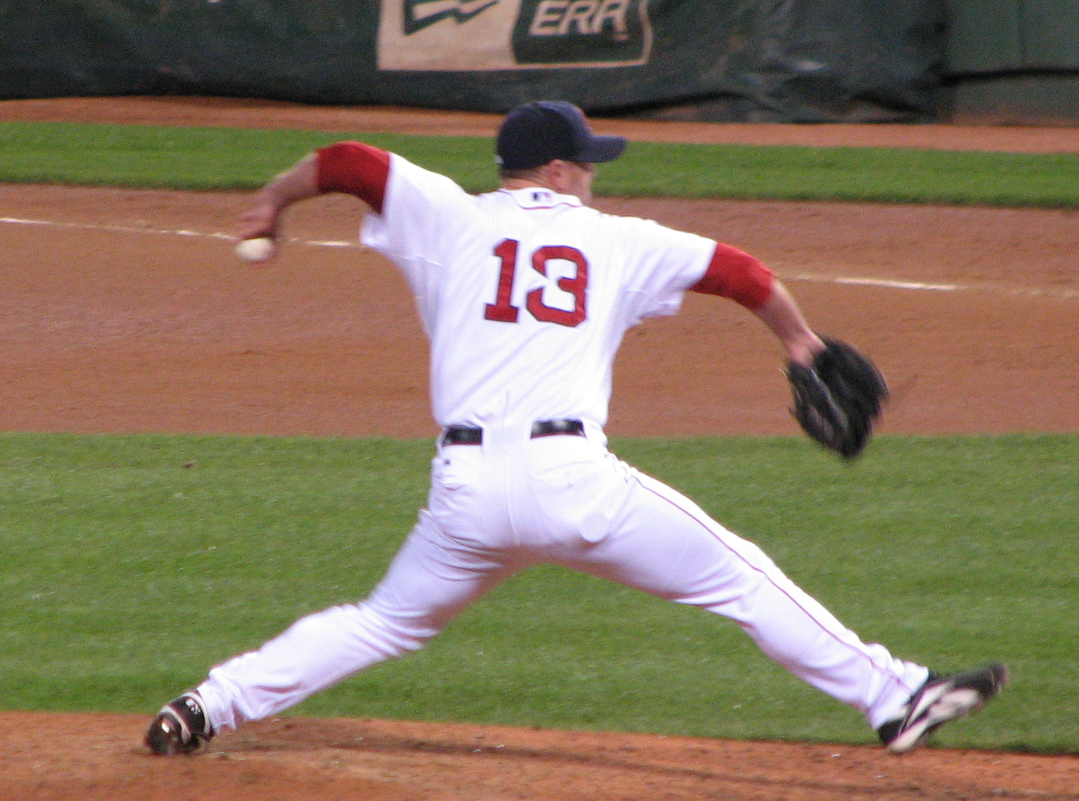 Billy Wagner